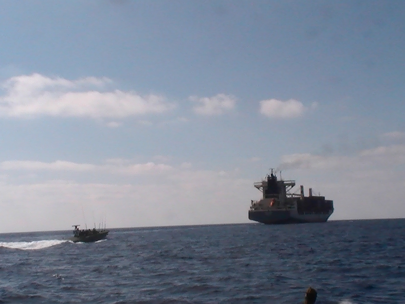 An Israeli Navy ship approaches the "Victoria" cargo ship after requesting to board. The ship's crew and captain complied, and with their full cooperation and to their surprise, their ship was found to contain various weaponry, including many mortar shells, and advanced anti-ship missiles with a 35 km range. The ship had initially departed from the Syrian port of Lattakia. For more information and photos of the weaponry: For videos of the ship's boarding by the Navy